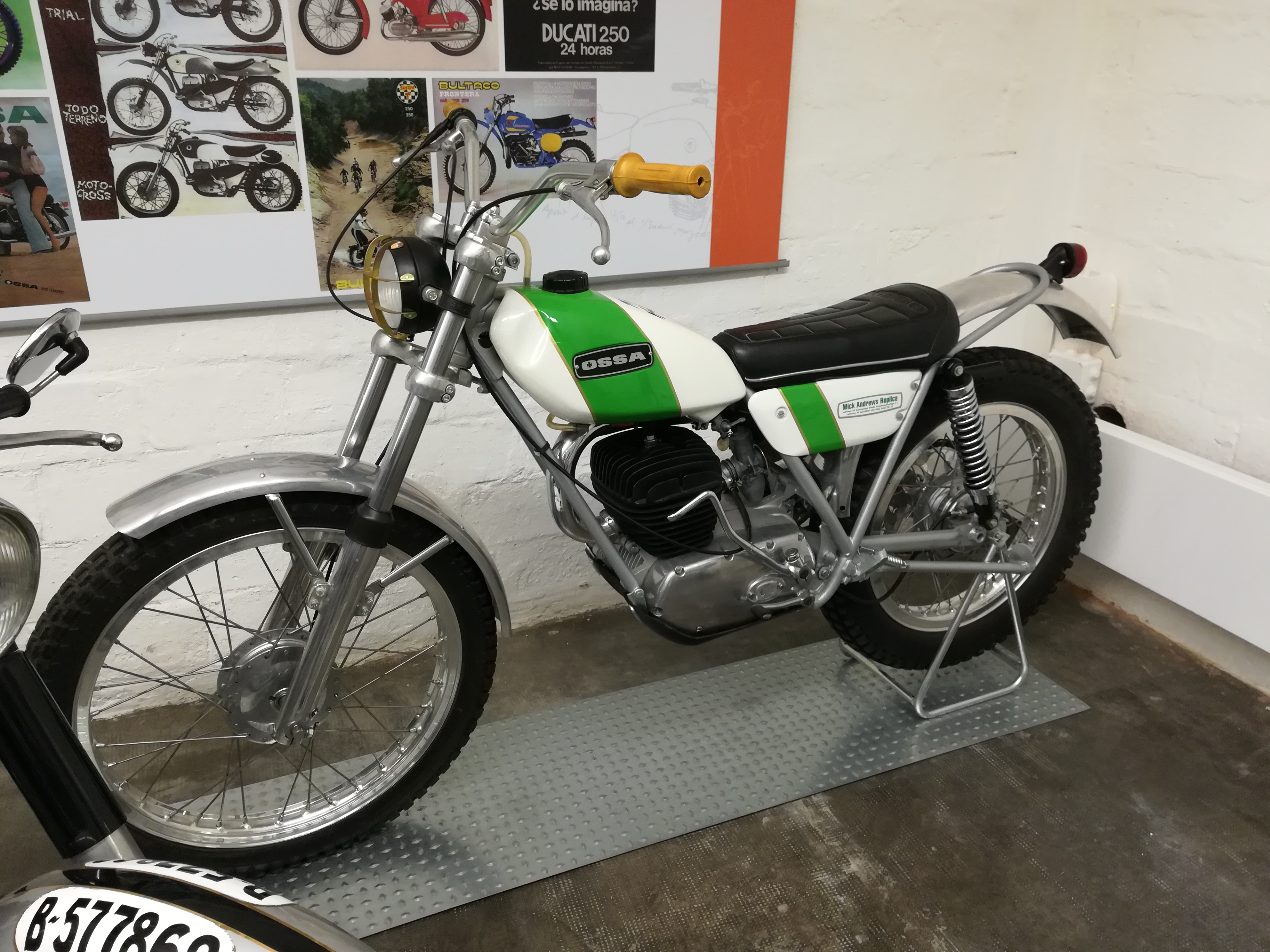 OSSA MAR ("Mick Andrews Replica") 250cc, 1972.Museu de la Moto de Barcelona (Catalonia). (Te filename is wrong)